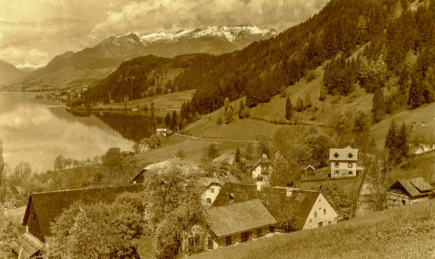 Dellach at Lake Millstätter See in the 1920s on the northern shore of the Lake Millstatt in Carinthia / Austria / EU. At that time the municipality of Obermillstatt, today the municipality of Millstatt. View from Thomasbichl, the location of the chapel. In the foreground the former Gasthof Brugger.